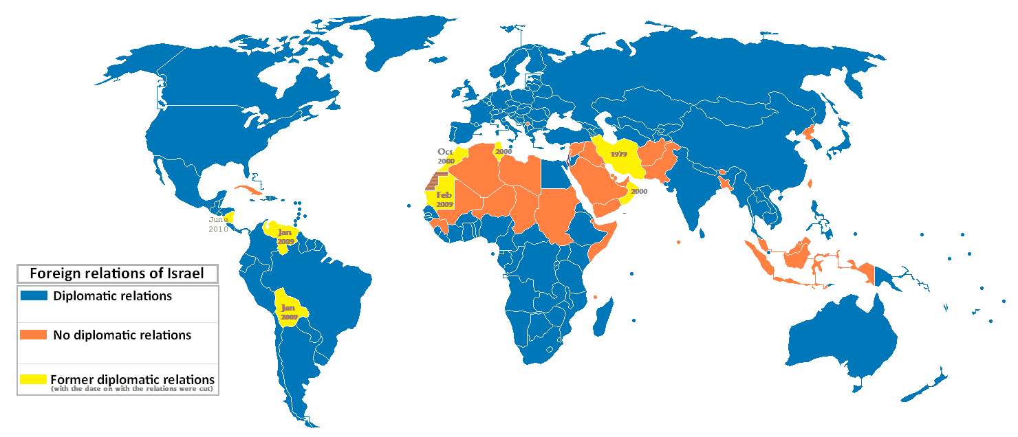 A map of the world, showing the states which have diplomatic relations with Israel. Note that the lack of diplomatic relations does not mean non-recognition, and does not mean lack of commercial relations or other type of international relations. Since the War in Gaza (Dec 2008-Jan 2009), Venezuela and Bolivia have cut ties with Israel. Mauritania announced it would "suspend" its relations with Israel, and backed this statement with operational steps in February 2009 when it closed the embassies of Mauritania in Israel and of Israel in Mauritania.